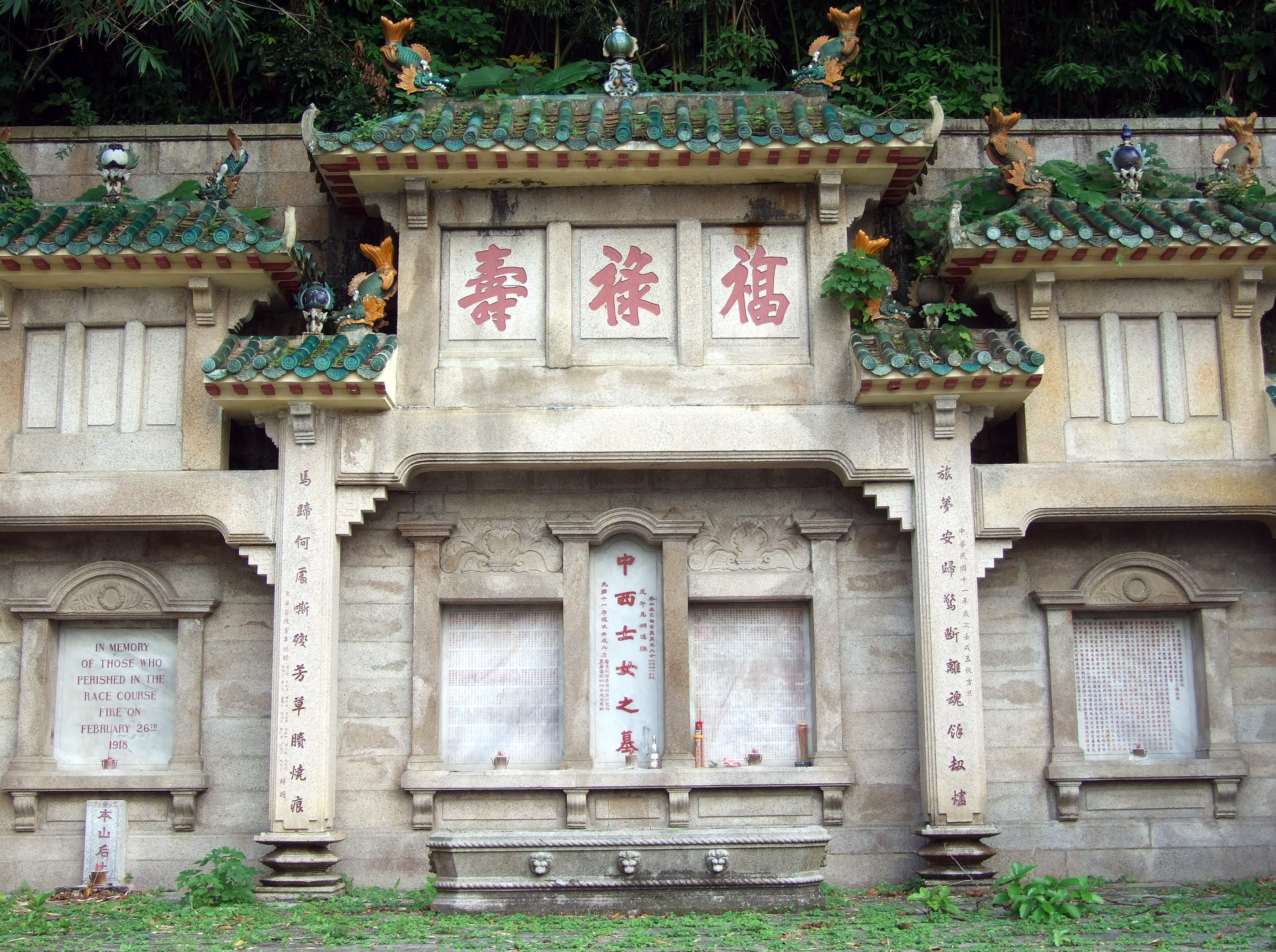 中文（香港）: 馬棚先難友紀念碑 The Race Course Cemetery on the hilltop of the Coffee Garden buried about 600 victims of the Race Course Fire that broke out on 26 February 1918. The fire was one of the worst catastrophes in Hong Kong history. After completion of the Cemetery, the Race Course Fire Memorial was erected in 1922.